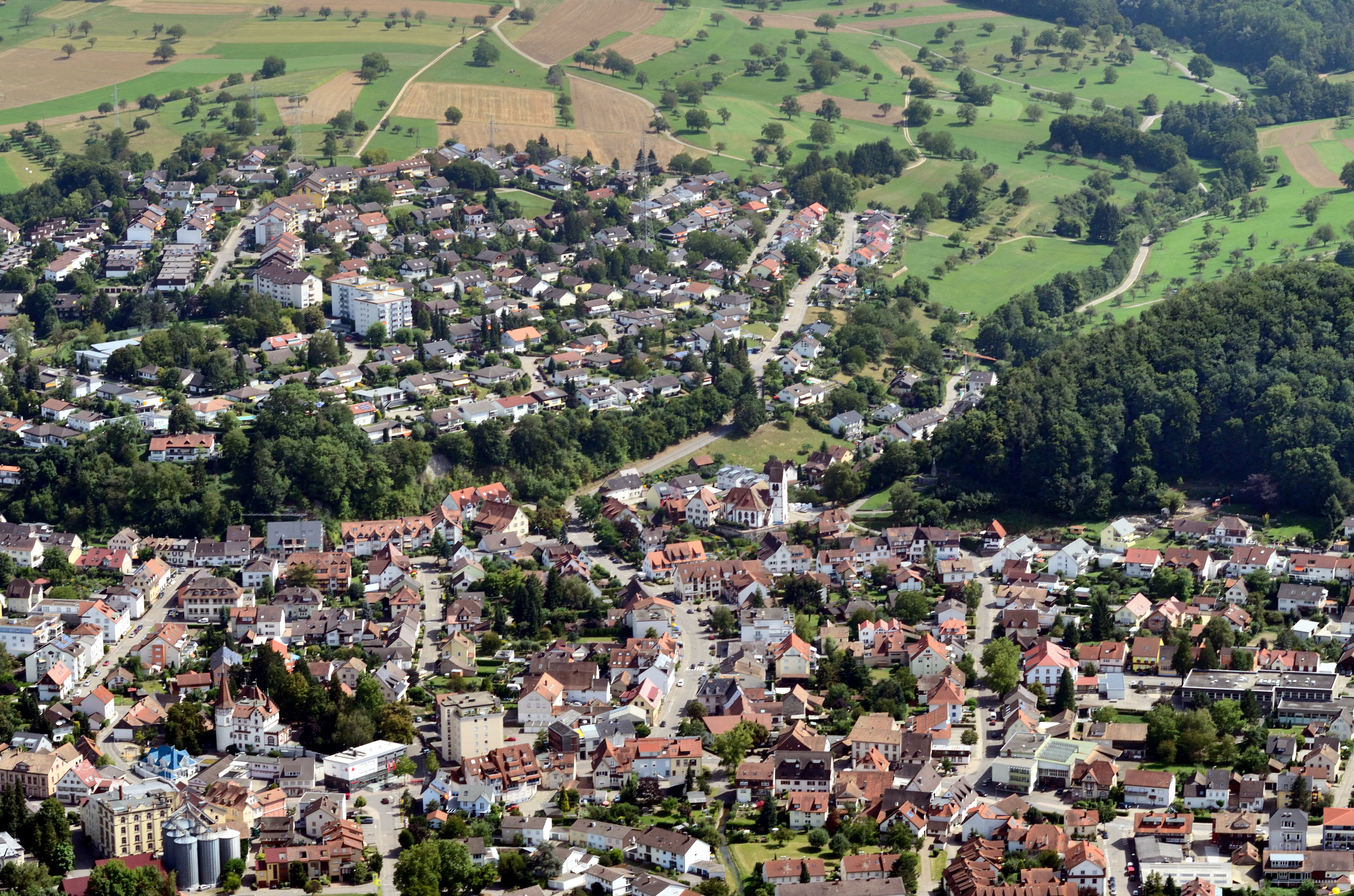 aerial view of Lörrach-Brombach